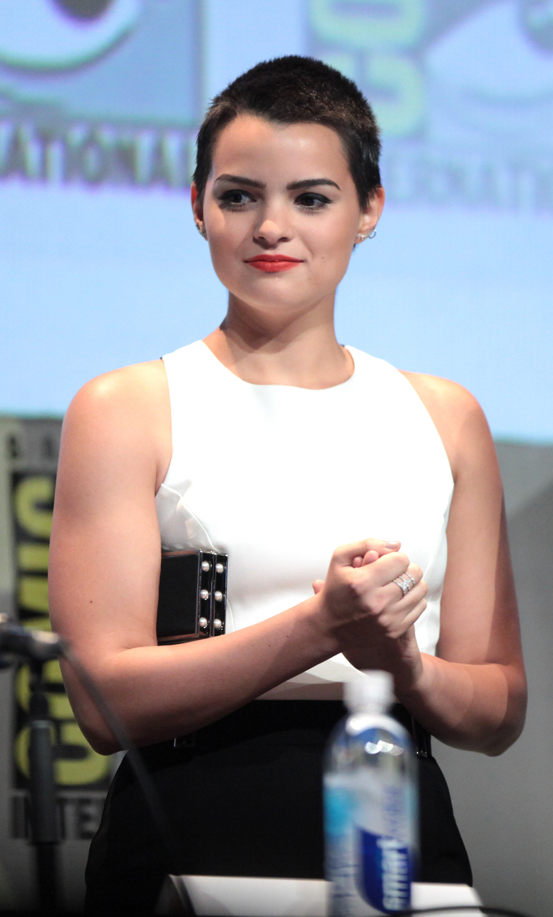 Brianna Hildebrand and Ed Skrein speaking at the 2015 San Diego Comic Con International, for "Deadpool", at the San Diego Convention Center in San Diego, California.